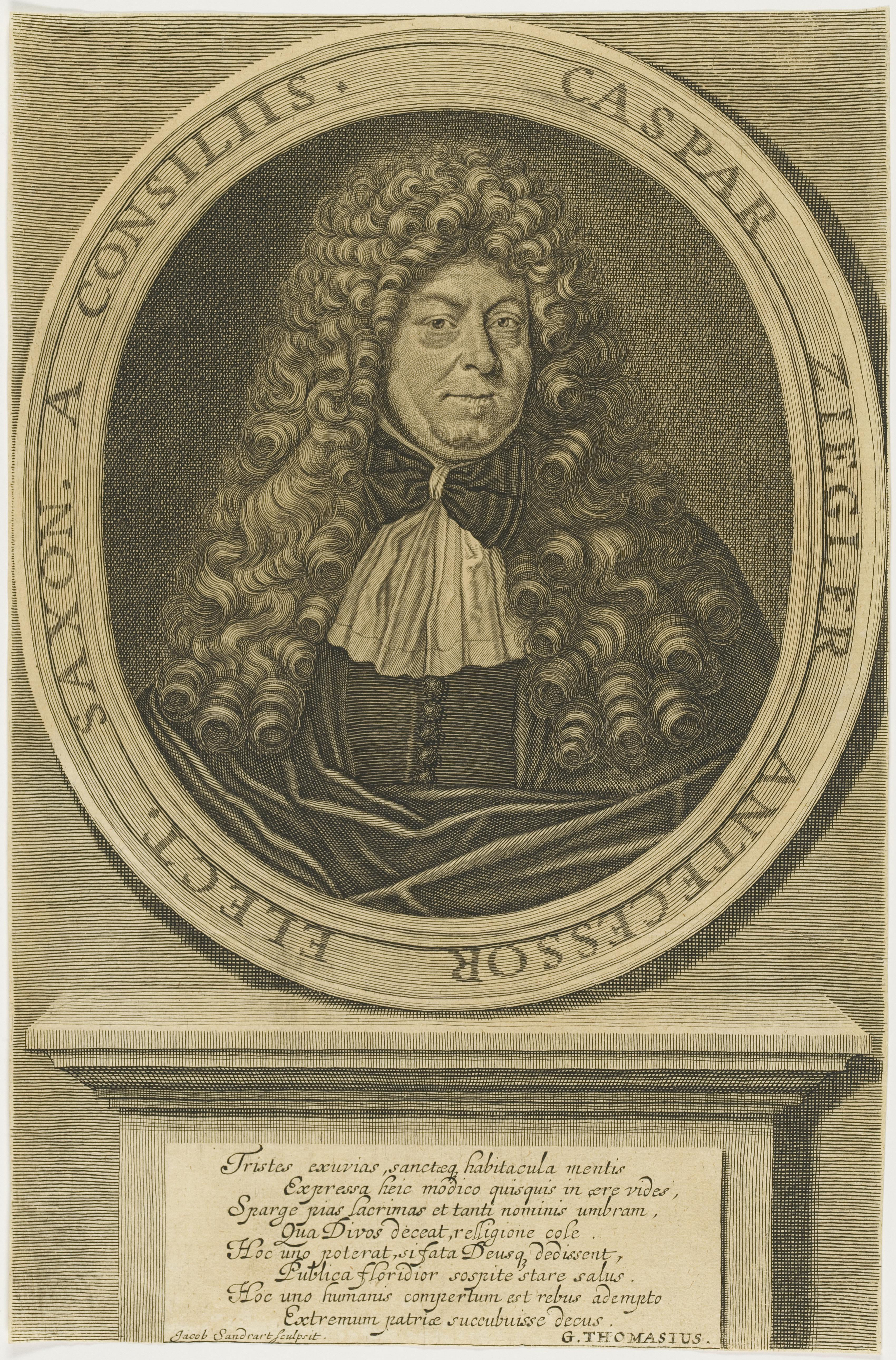 Depicted person: Caspar Ziegler